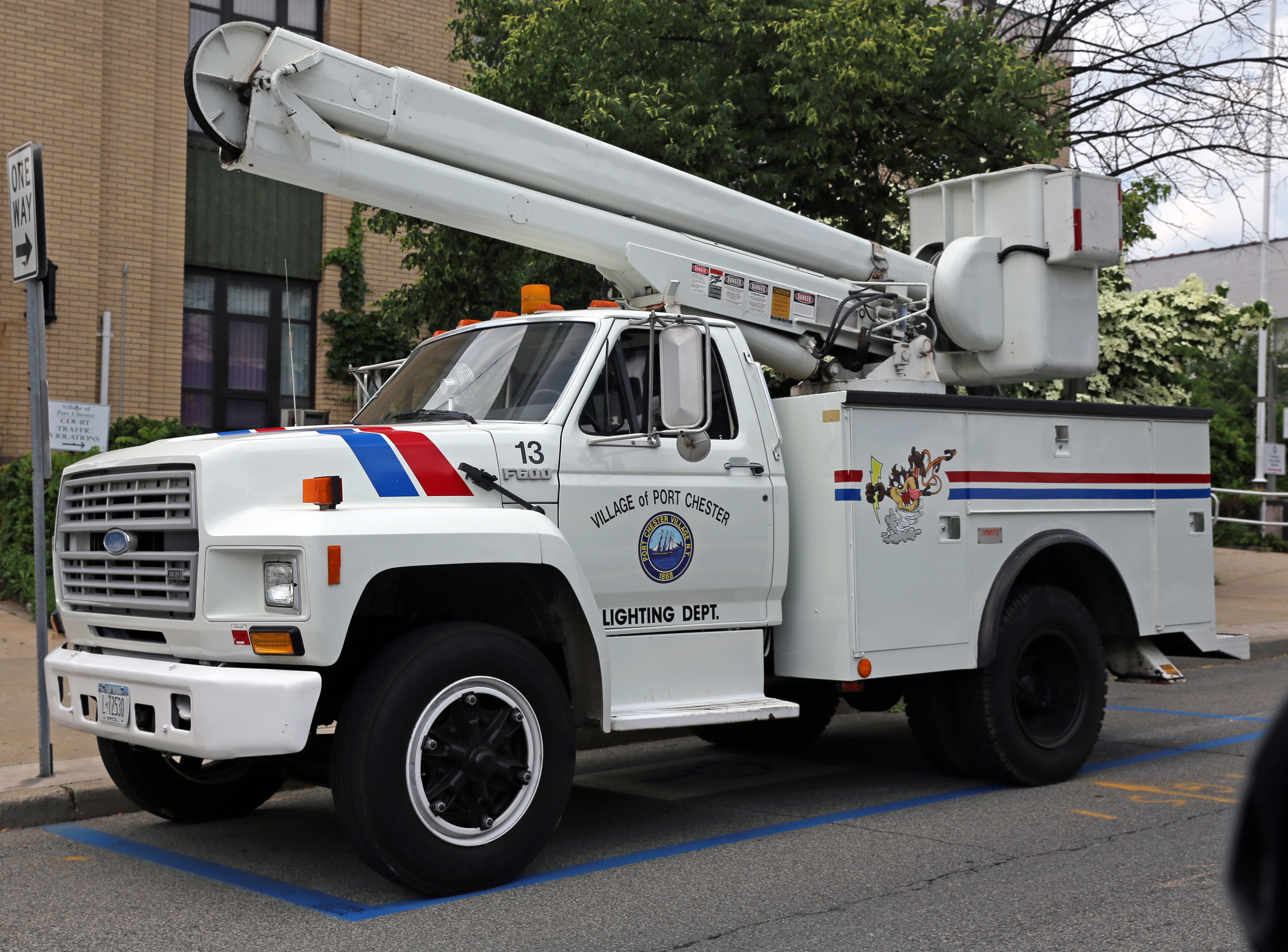 Ford F600 medium-duty truck, used by the city of Port Chester to repair street lights.